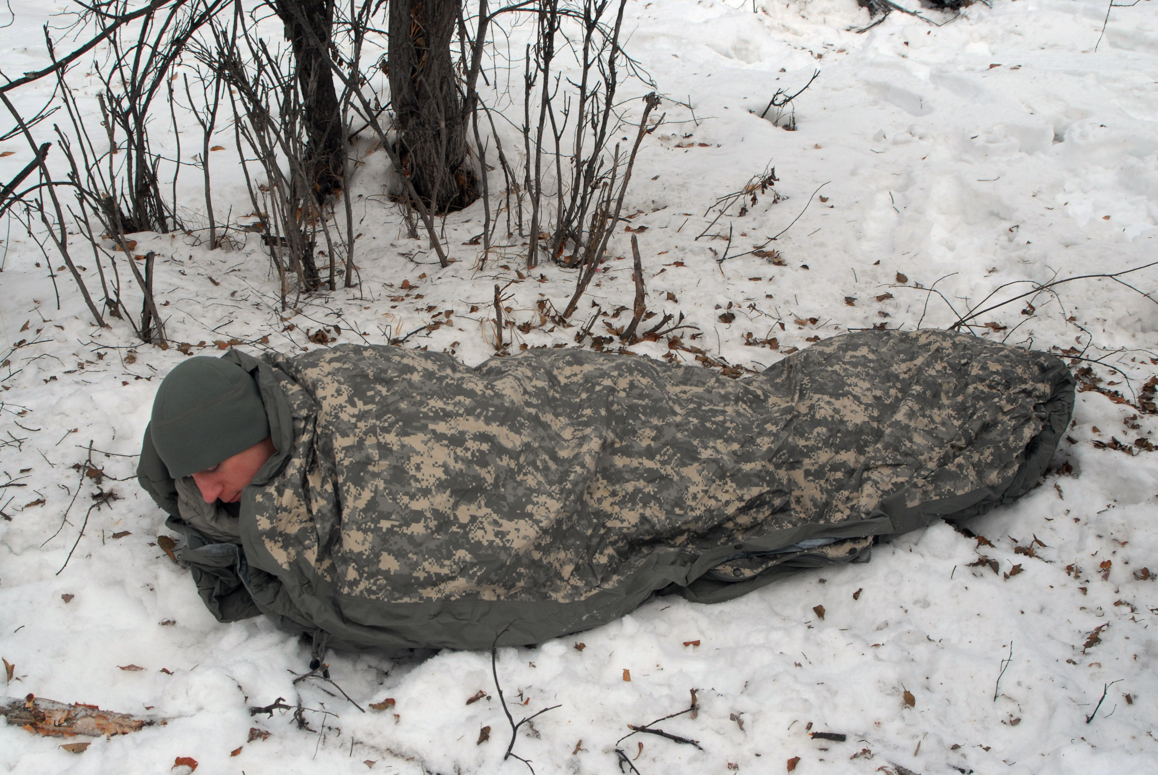 Modular Sleep System A US Army Soldier pulls vigilant security during a training mission at Fort Riley, Kansas.(MSS)